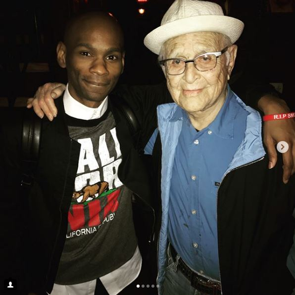 This picture features Comedian Robert Powell III and Norman Lear